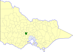 Location of the former Shire of Daylesford and Glenlyon within Victoria.